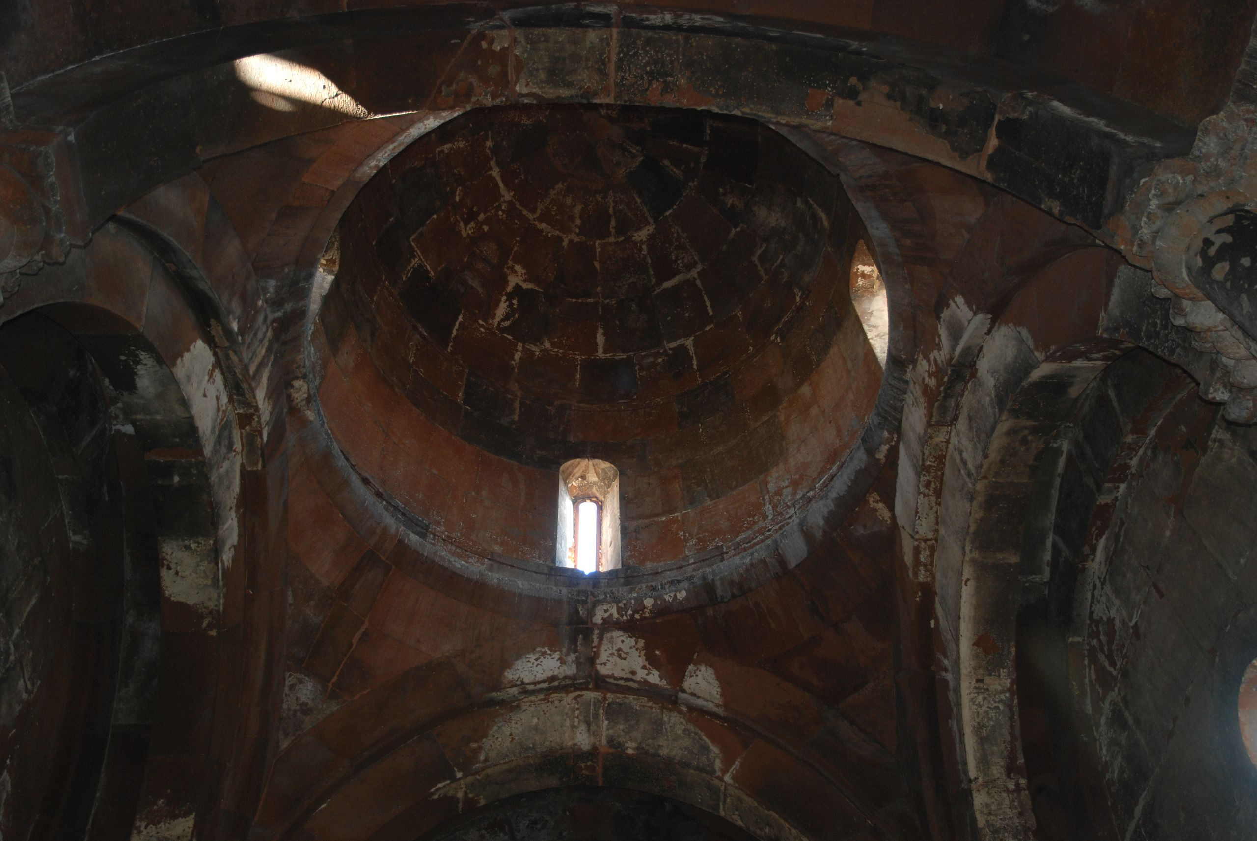 Marmashen, main church